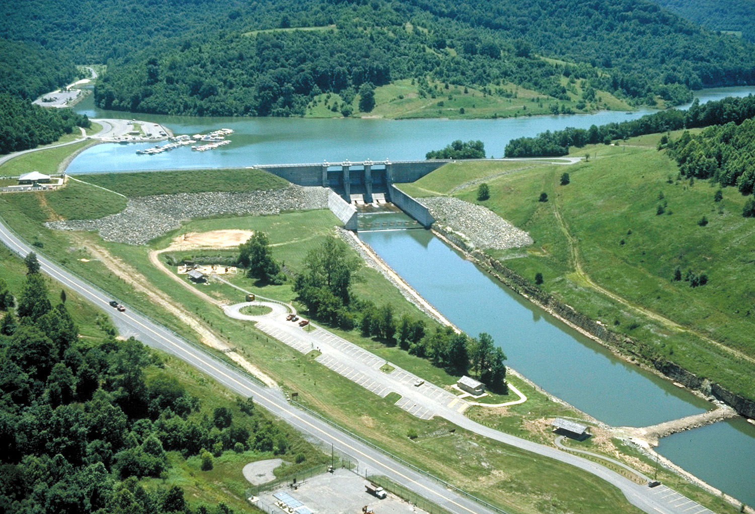 Burnsville Lake and Dam in Braxton County near Burnsville, West Virginia, USA. The dam provides flood control and recreation on the Little Kanawha River. The dam was constructed by the U.S. Army Corps of Engineers in 1976.